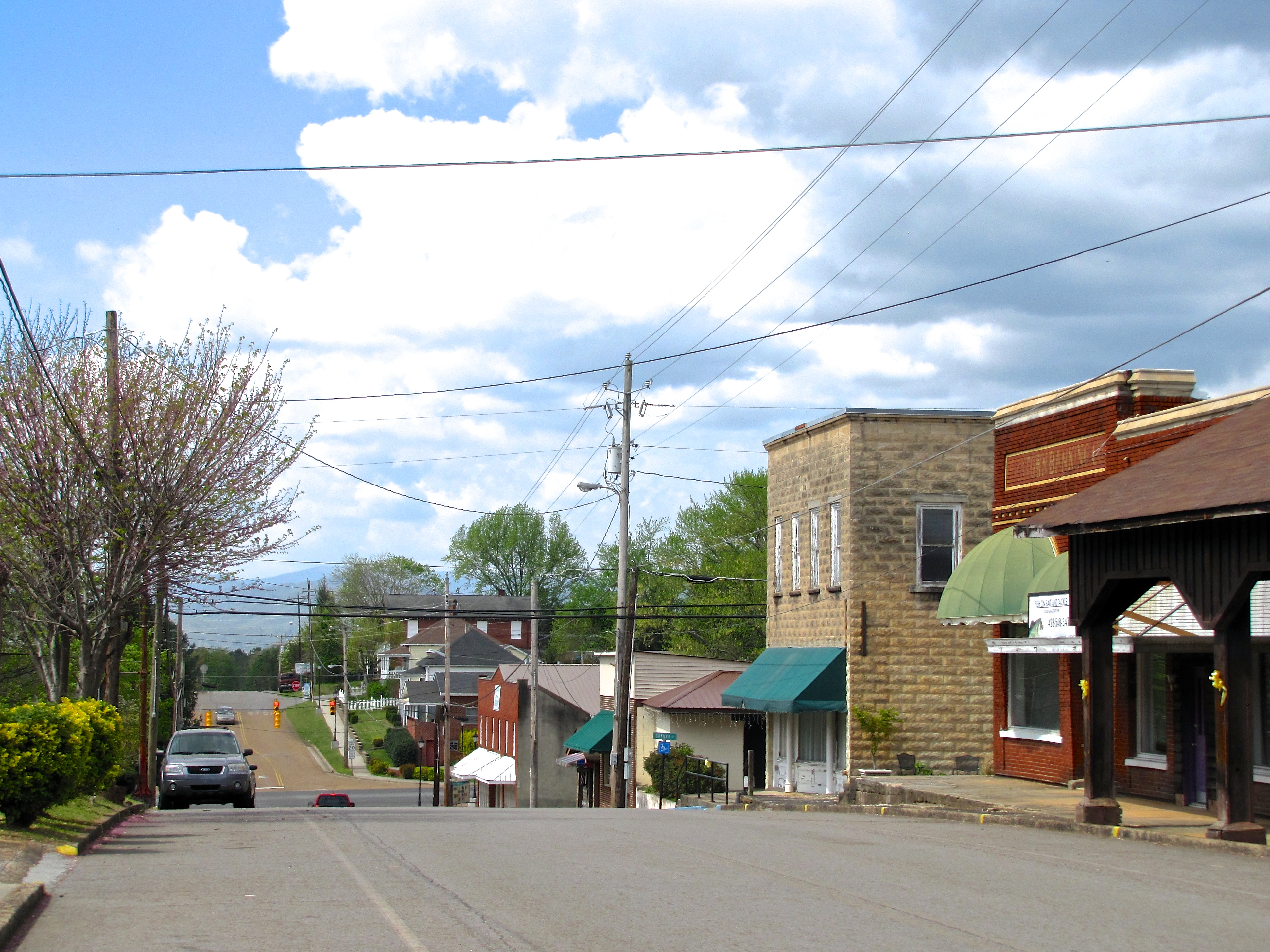 Buildings along Main Street in Ducktown, Tennessee, United States, looking toward its intersection with State Route 68.